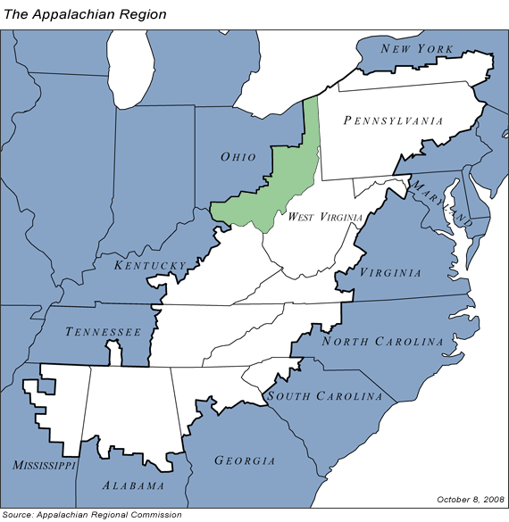 Map showing the counties of Appalachian Ohio in green, along with all of Appalachia.